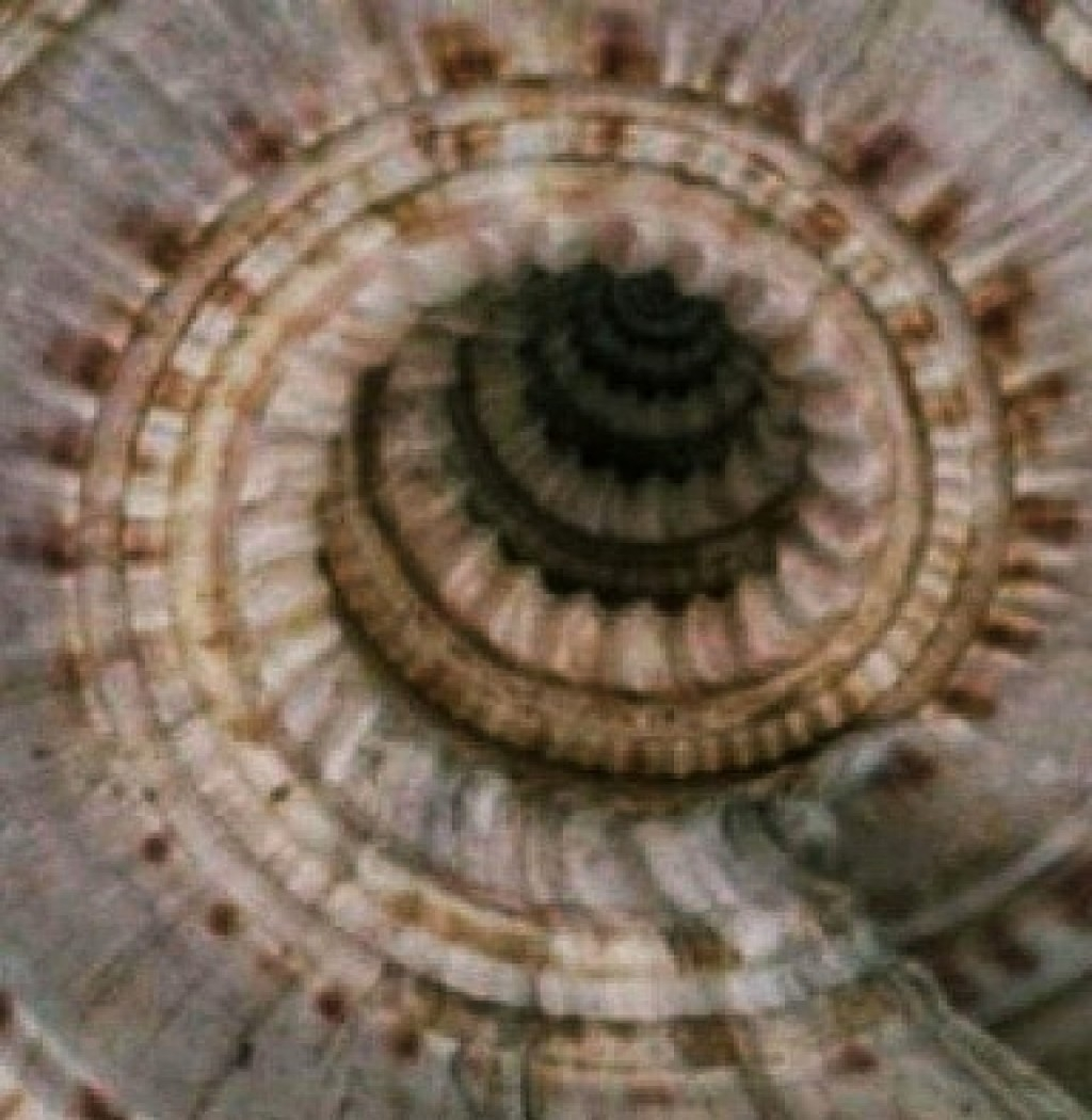 Underside of the seashell Architectonica taylori (Hanley, 1862)[1] showing its deep umbilicus. From the collection of Naturalis Biodiversity Center (edited colors image).